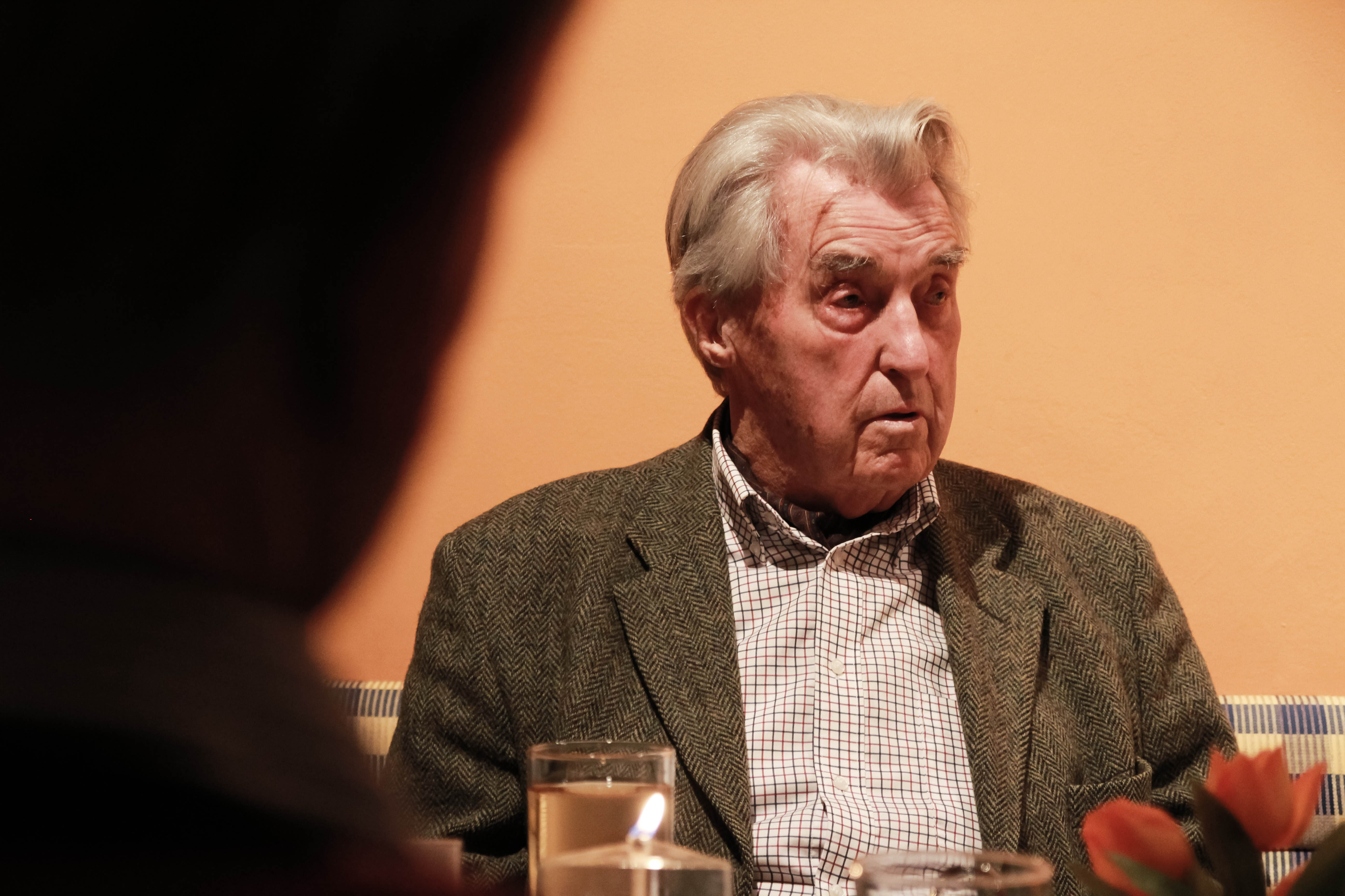 Karl Steinocher